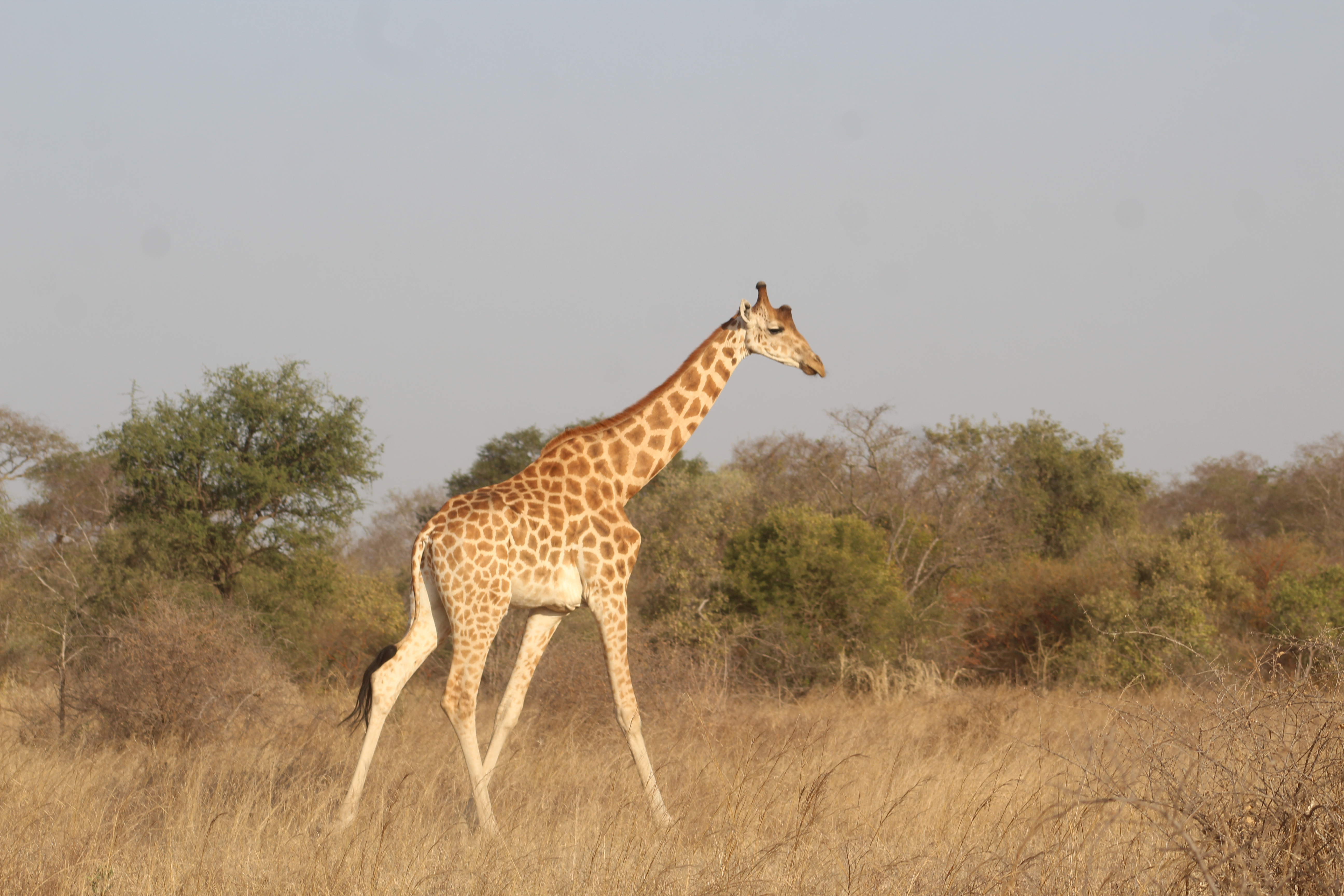 Girafe solitaire à zakouma